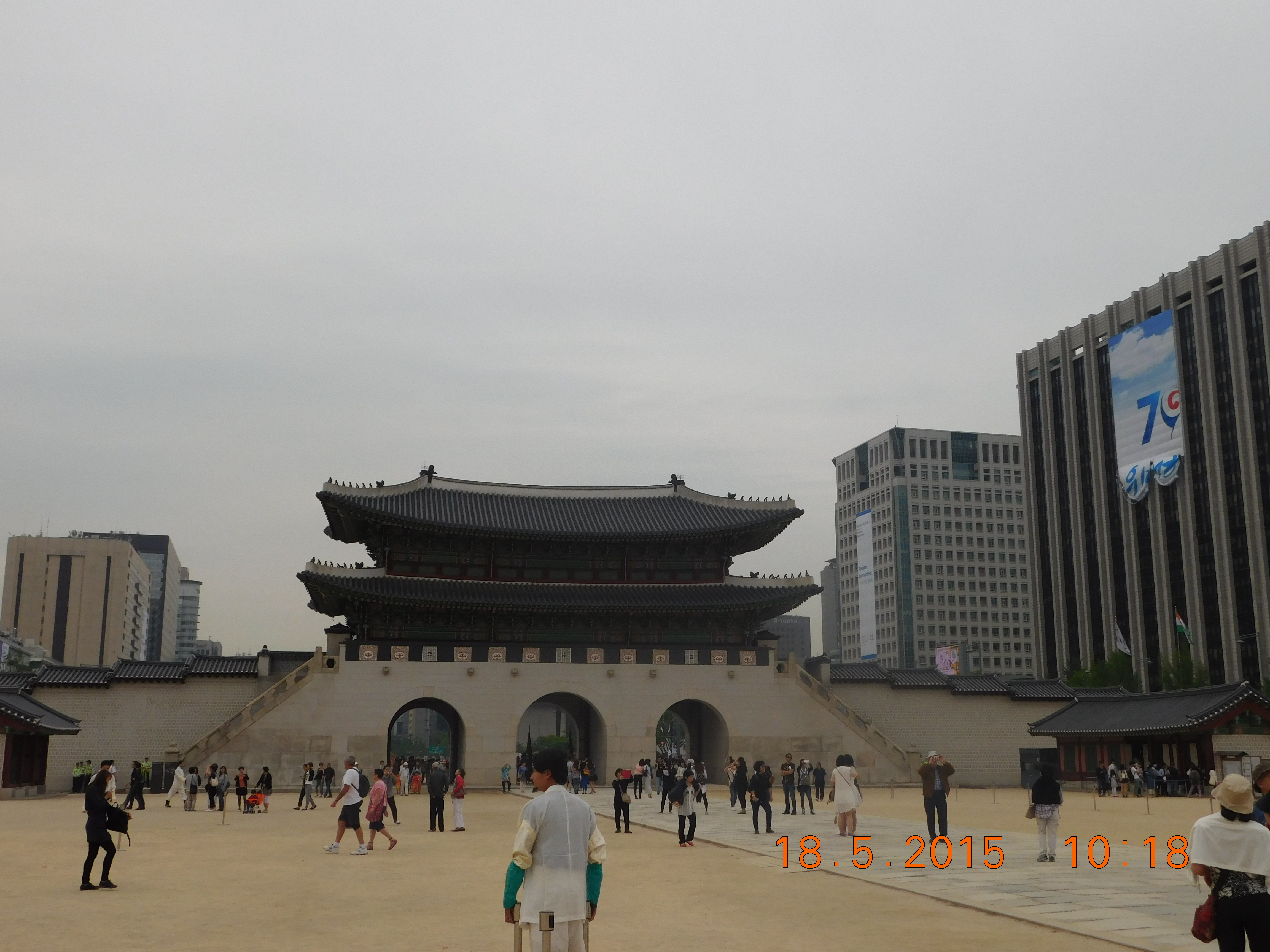 Gyeongbokgung Palace main gate